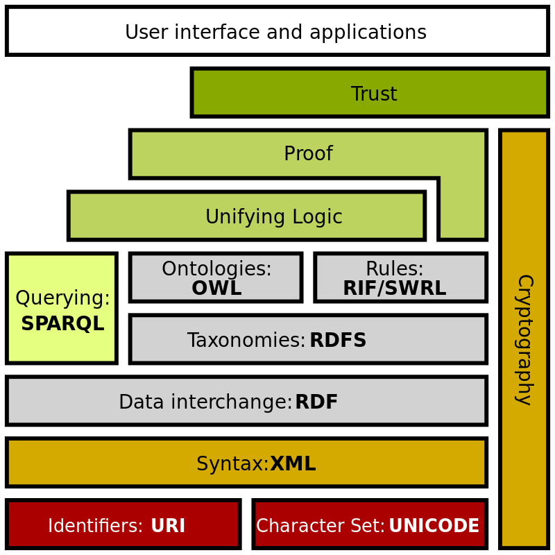 This is Web 3.0 process